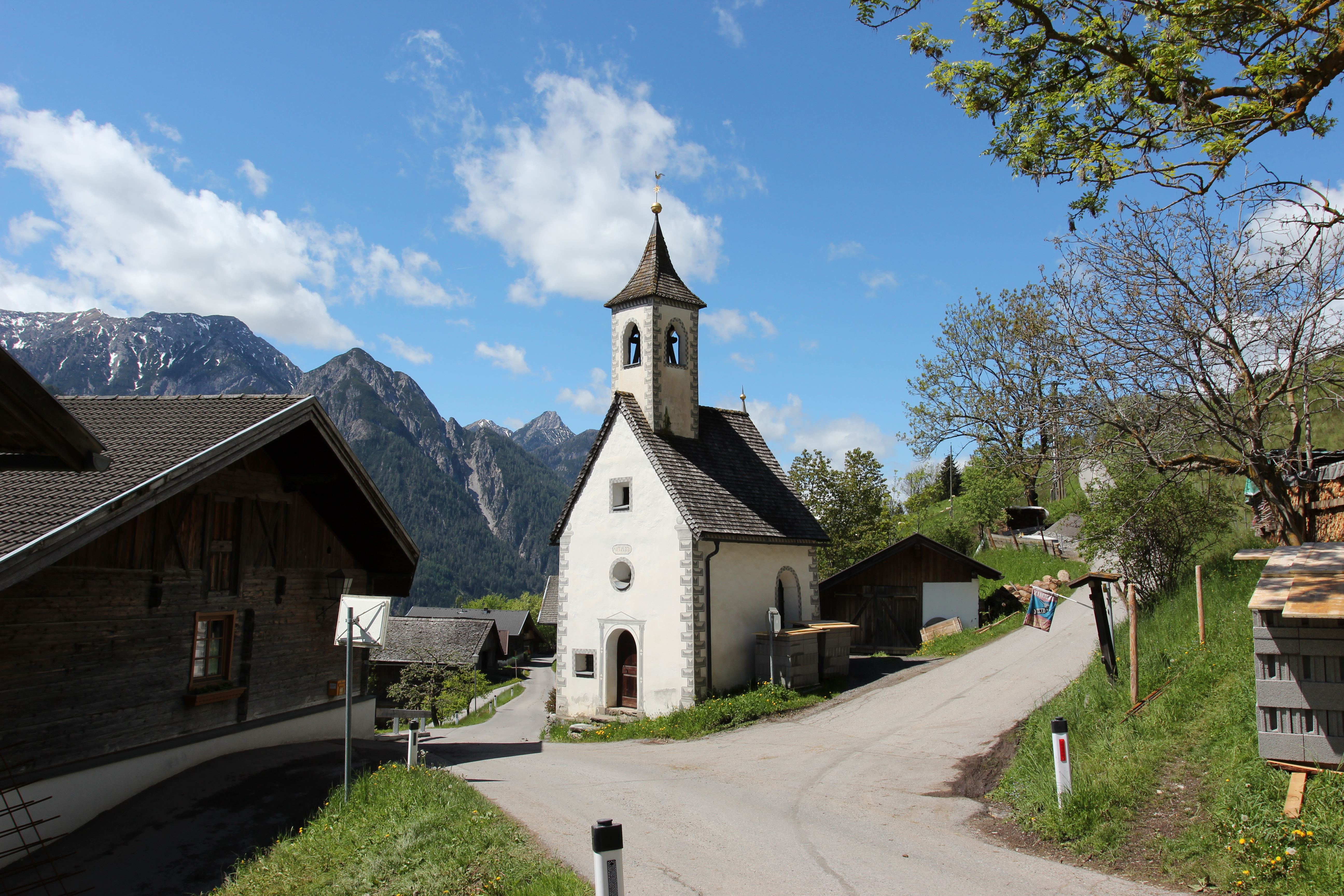 Kapelle in Schrottendorf , Gemeinde Assling, Osttirol, Österreich.